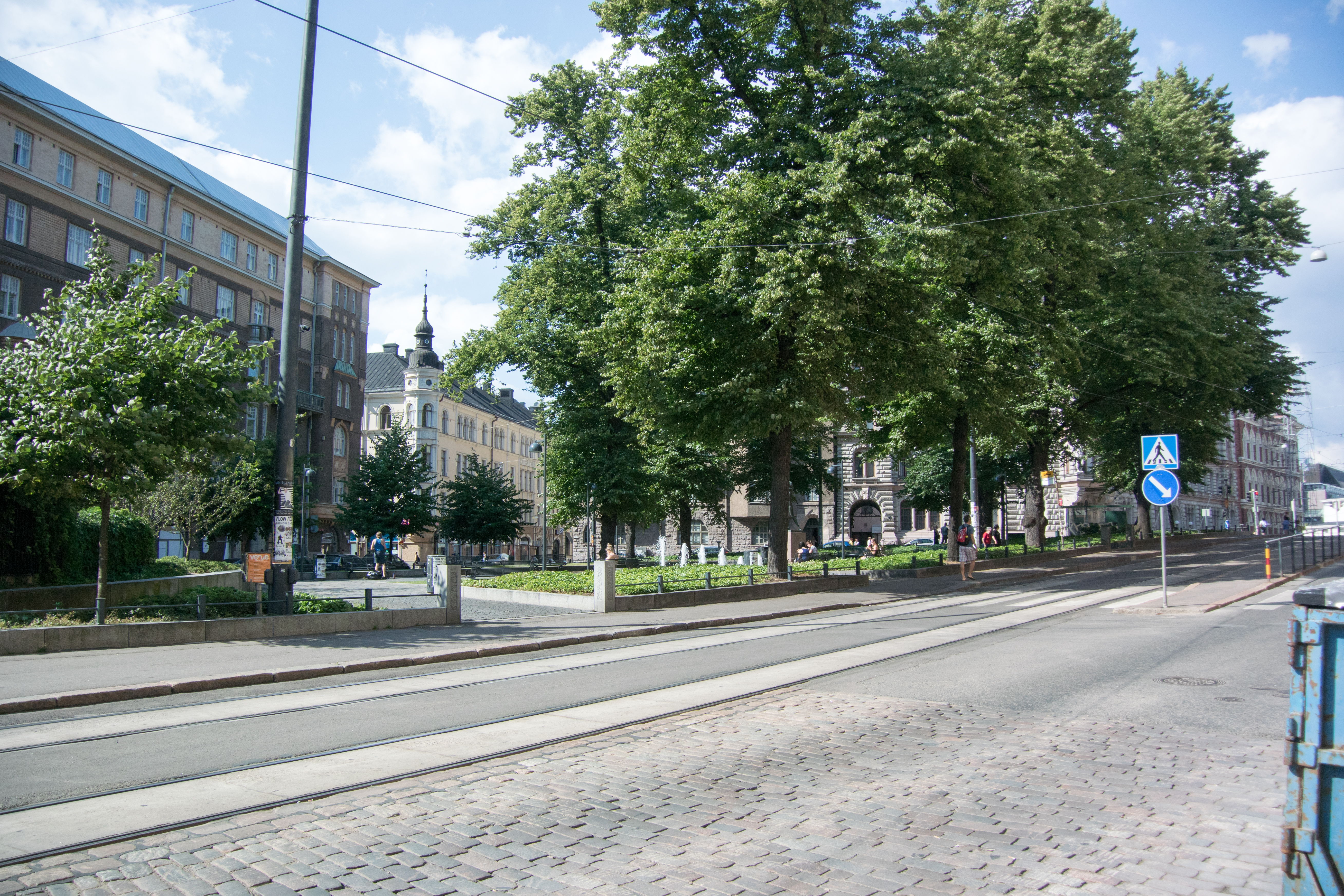 Kolmikulma Park in Helsinki, Finland